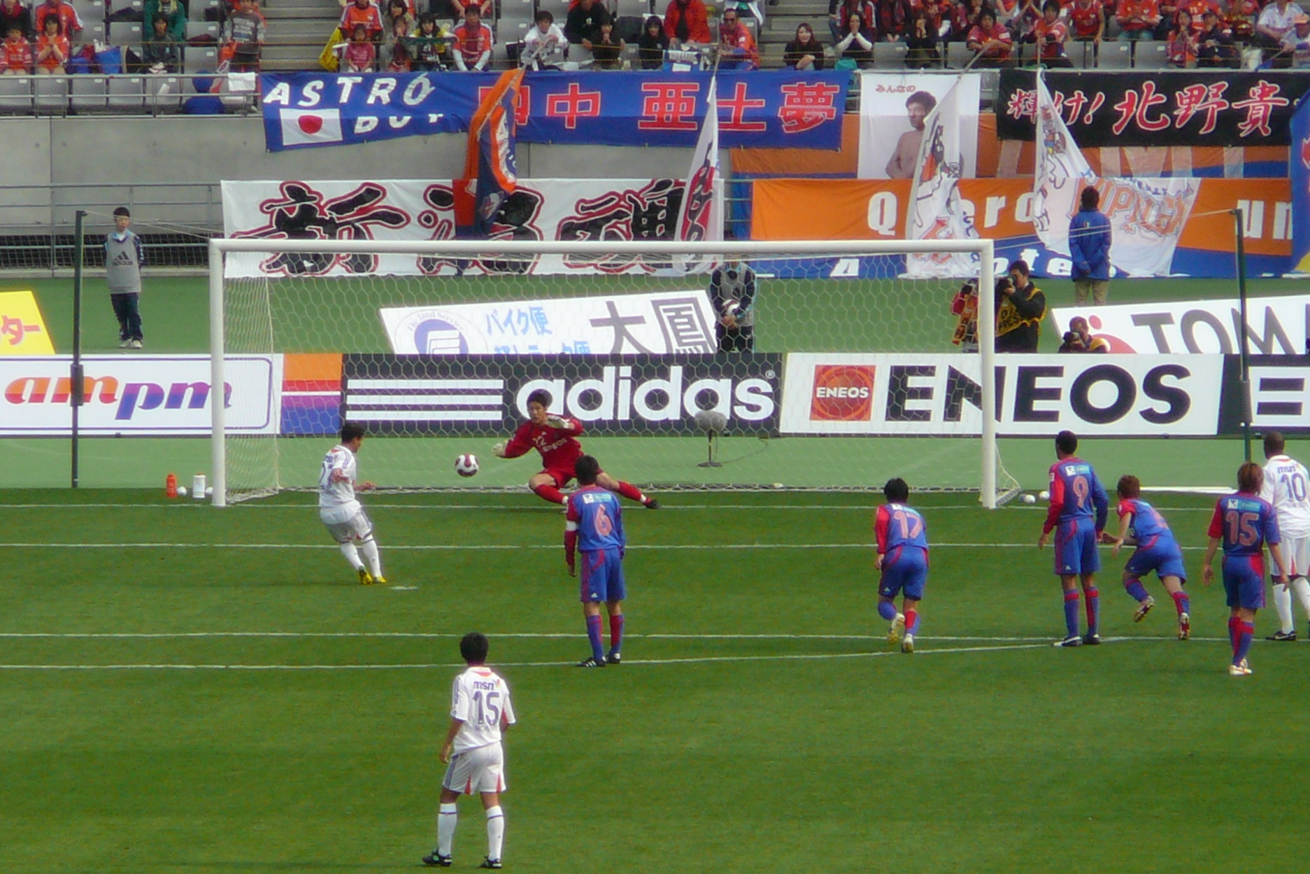 Soccer